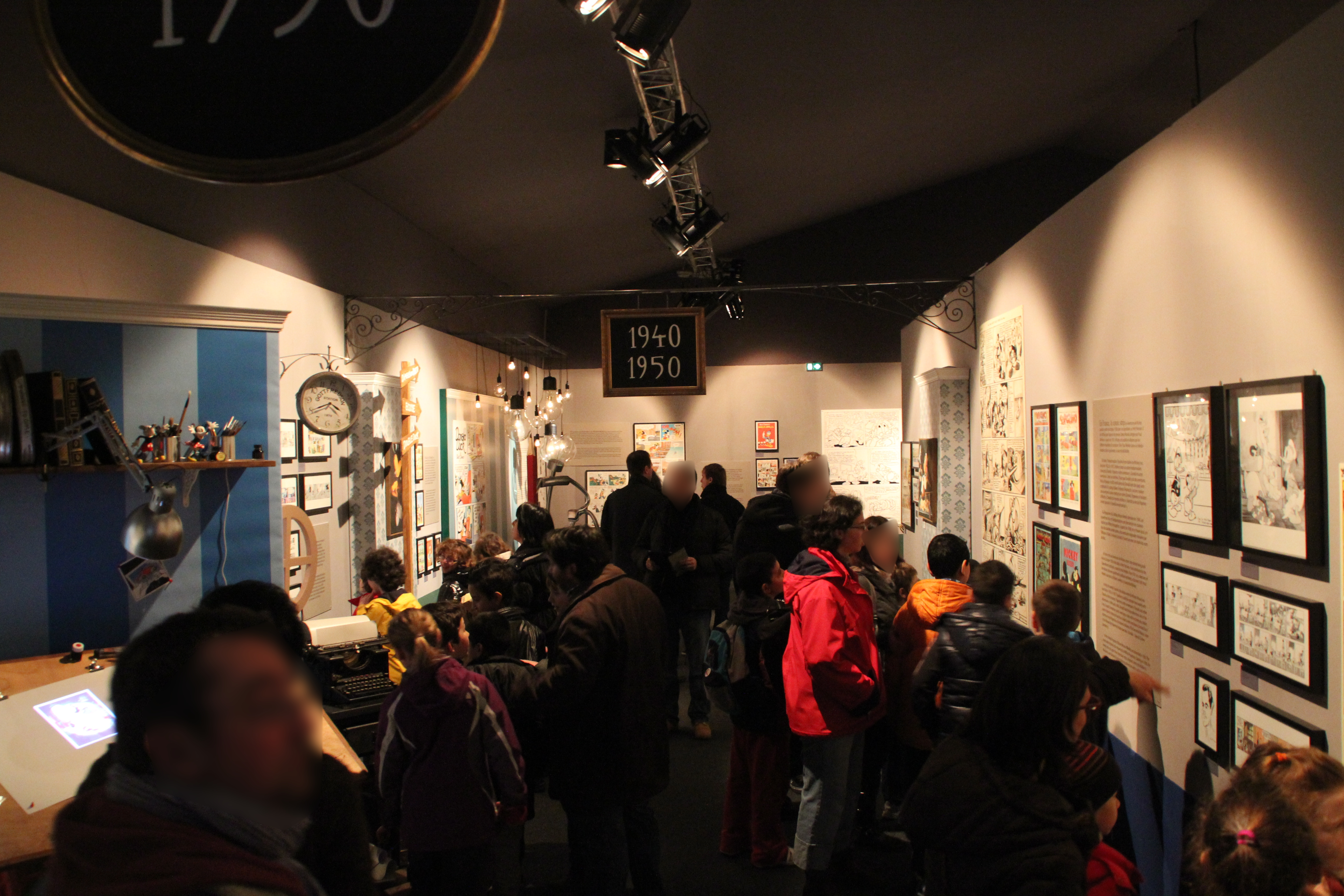 Angoulême International Comics Festival 2013.